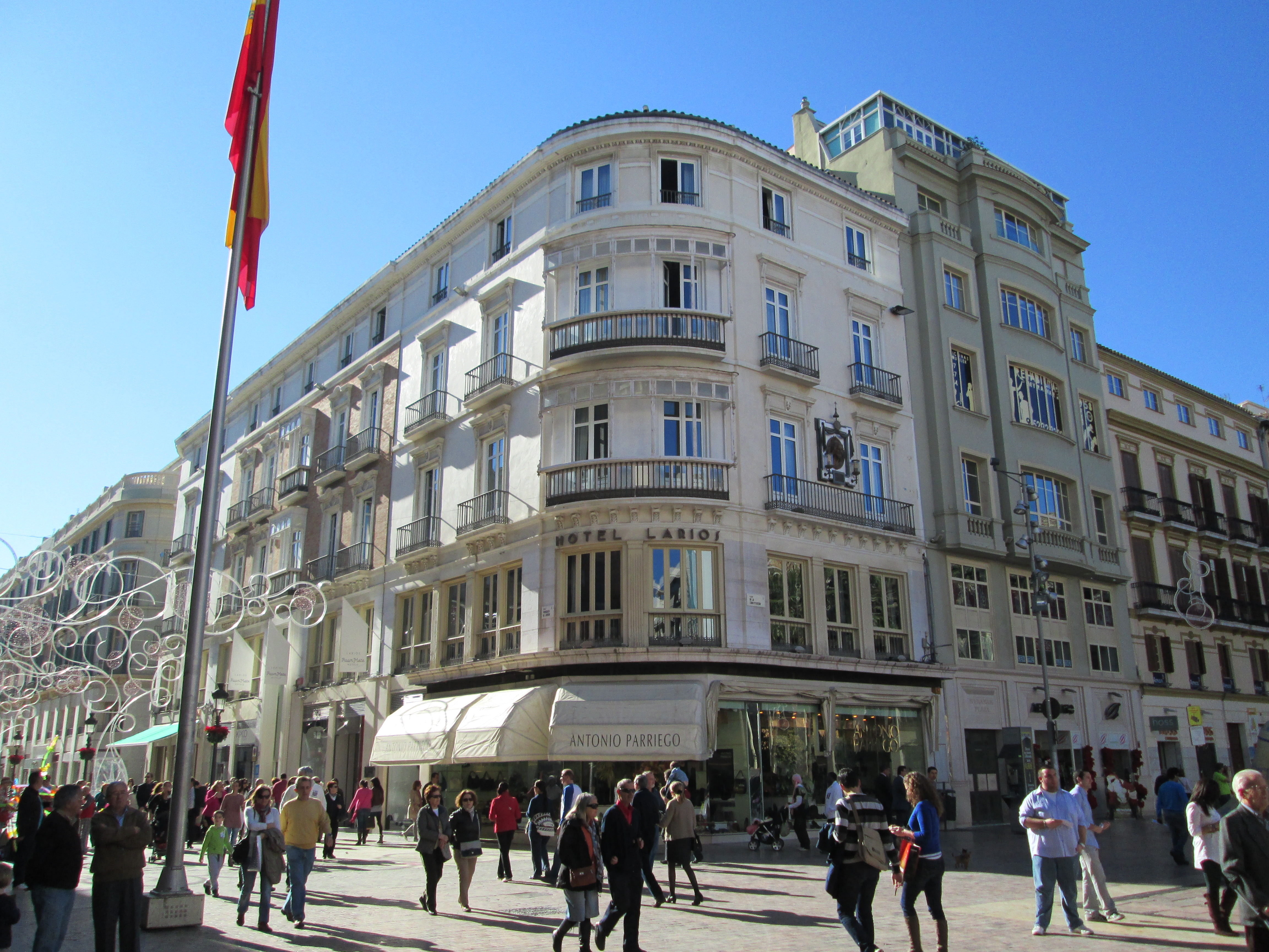 Calle Larios no. 2/plaza de la Constitución 1-2.